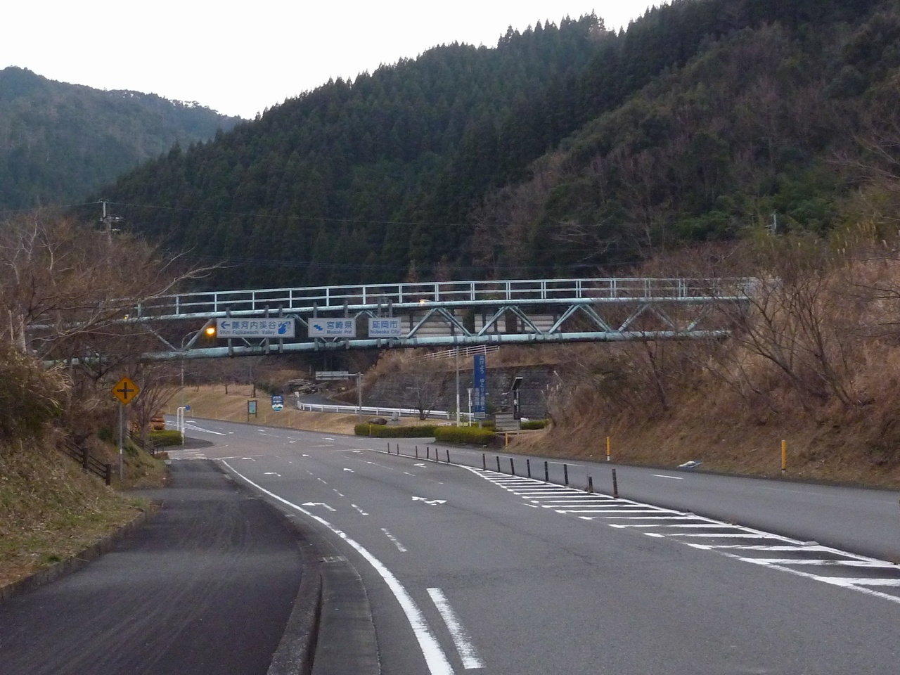 The National Route 326 - Prefectural Boundary (Nobeoka City, Miyazaki Prefecture, Japan).